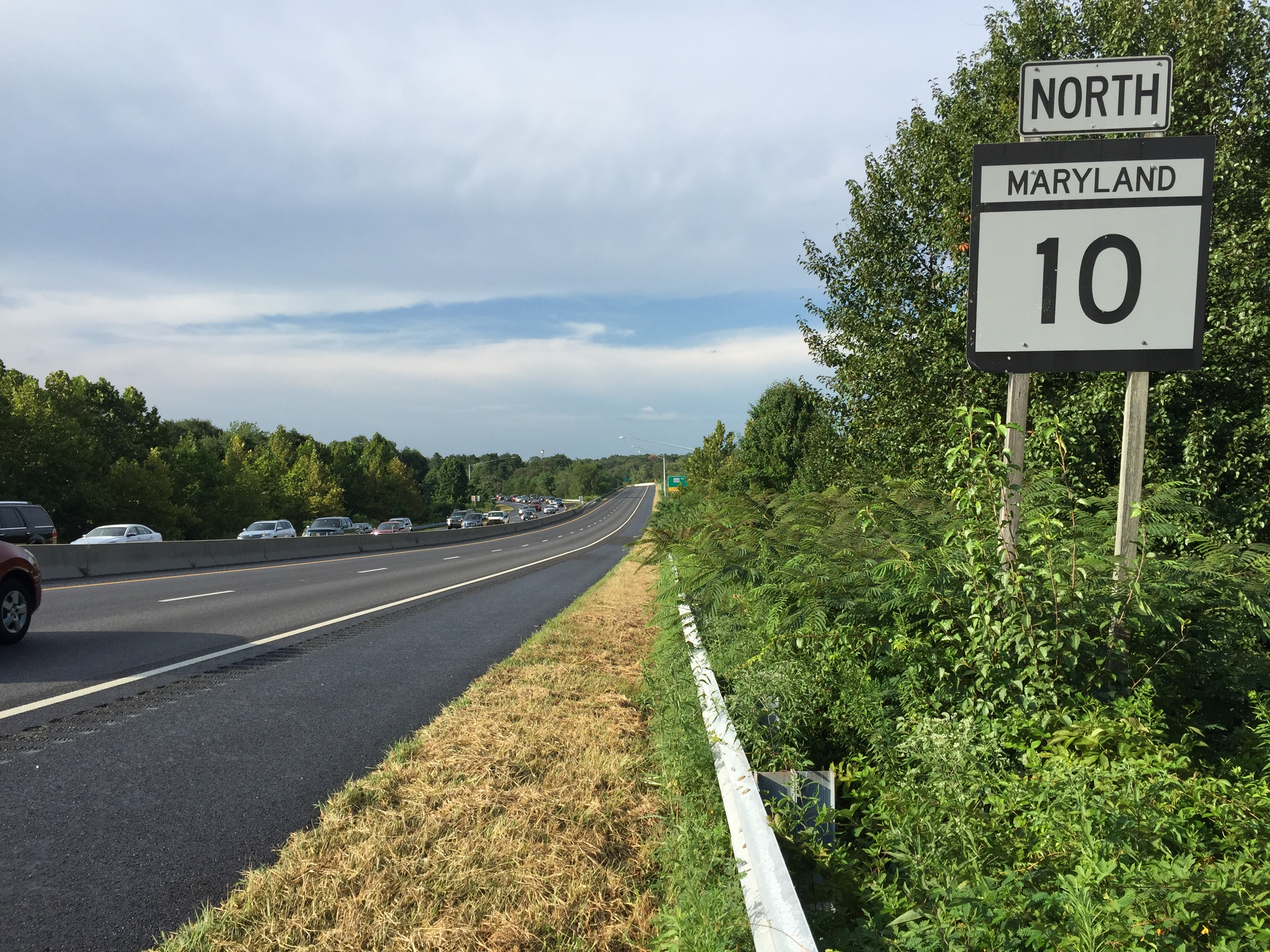 View north along Maryland State Route 10 (Arundel Expressway) just north of Maryland State Route 2 (Governor Ritchie Highway) in Severna Park, Anne Arundel County, Maryland